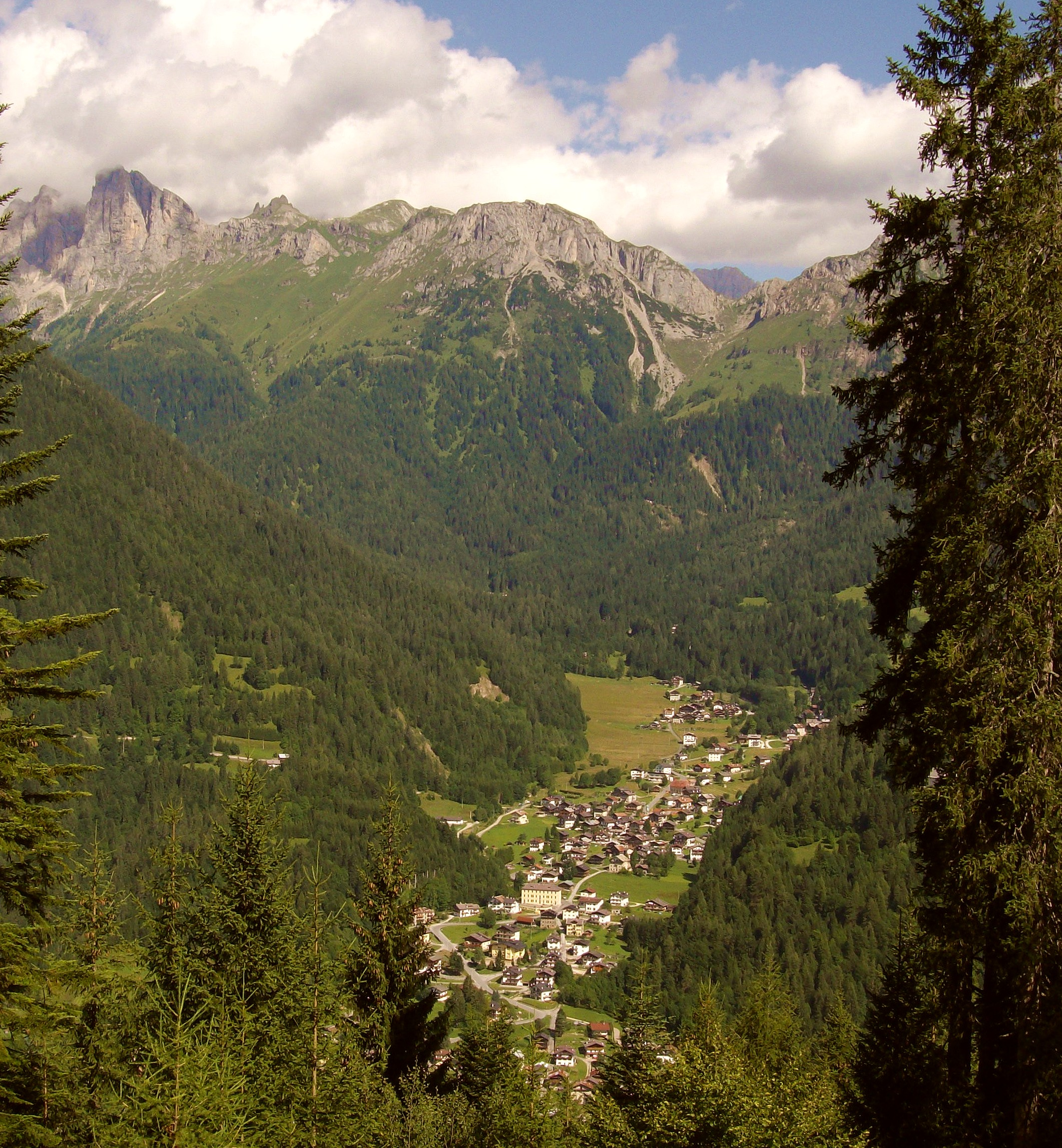 A view of Vallada Agordina